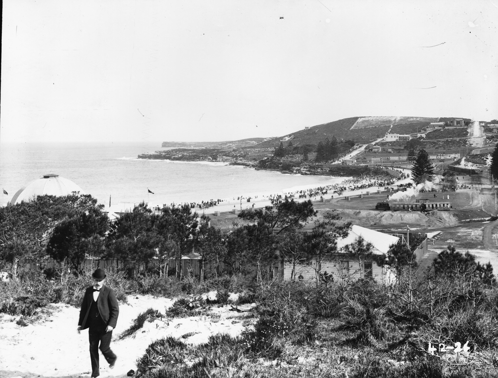 Format: Glass plate negative. Repository: Tyrrell Photographic Collection, Powerhouse Museum Part Of: Powerhouse Museum Collection General information about the Powerhouse Museum Collection is available at Persistent URL: [1] Acquisition credit line: Gift of Australian Consolidated Press under the Taxation Incentives for the Arts Scheme, 1985